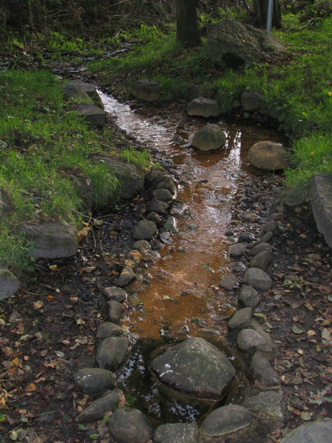 Holy spring in the german municipality of Breklum.